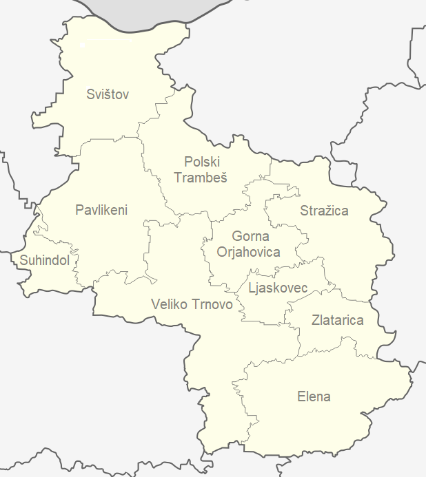 Croatian names on map of Veliko Tarnovo District (Bulgaria)